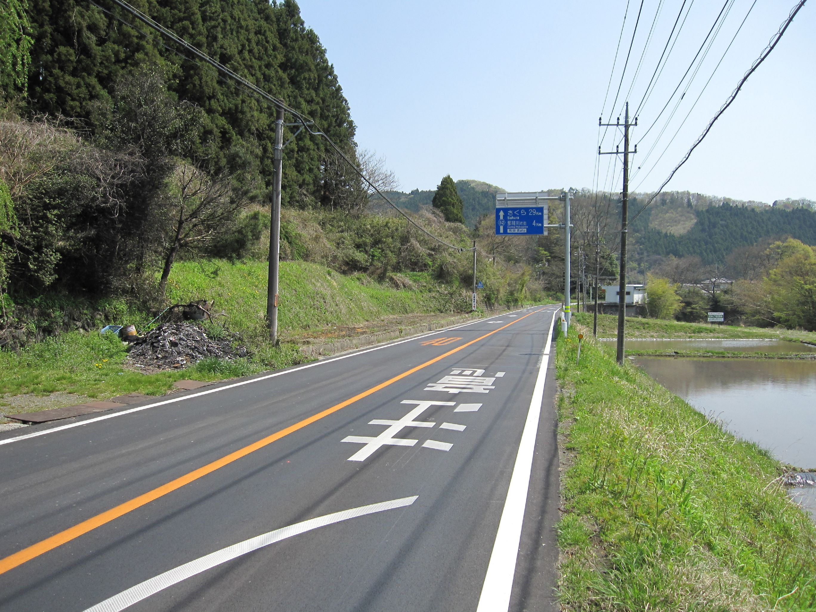 Tochigi prefectural road No.52 on Nakagawa town